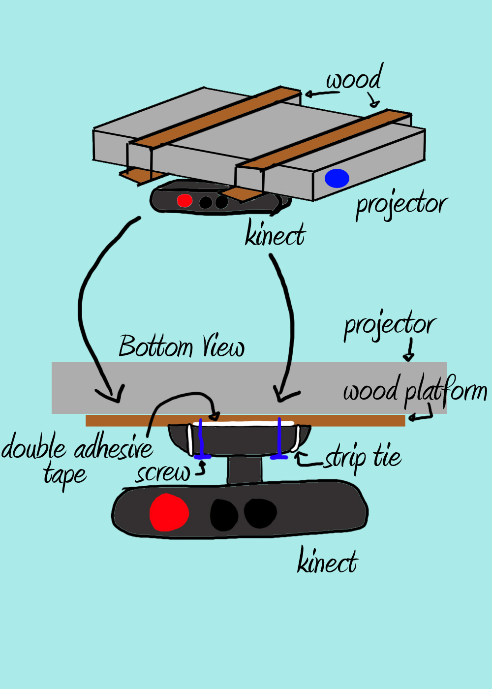 A design to mount Kinect